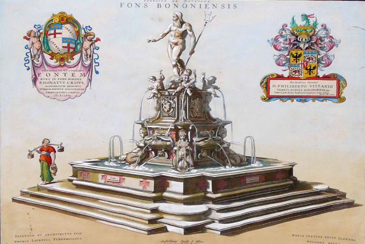 Fountain of Neptune in Bologna - Italy : published in Amsterdam by the heirs of Joan Blaeu in 1724.